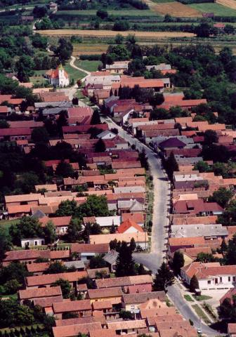 Porrog, Hungary, aerialphotography